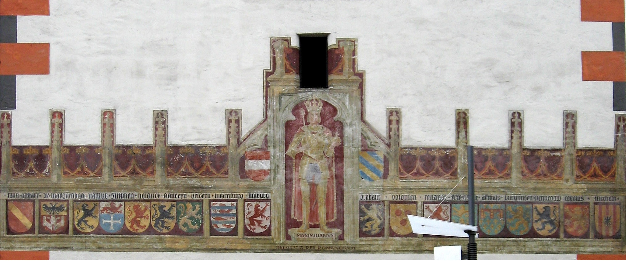 Sights of Vöcklabruck in Upper Austria, here a detail of the Lower City Tower (Unterer Stadtturm), showing emperor Maximilian I of Habsburg and the coat of arms of the regions of the Low Countries and Bourgogne that where controlled by him in the year 1508 List of coat of arms (left to right): Salin (Château-Salins), Anttdorf Hl. Margafschaft (Antwerp), Namur (Marquis of Namur), Zutphen, Holandt (Holland), Flandern (Flanders), Geldern, Lutzenburg (Luxembourg), Limburg, Brabant (Duchy of Brabant), Bolonien (Bouillon), Seelandt (Zeeland), Frieslandt (Friesland), Arthois (County of Artois), Burgunden (Duke of Burgundy), Hennegow (County of Hainaut), Carolus (Charleroi), Mecheln (Mechelen)